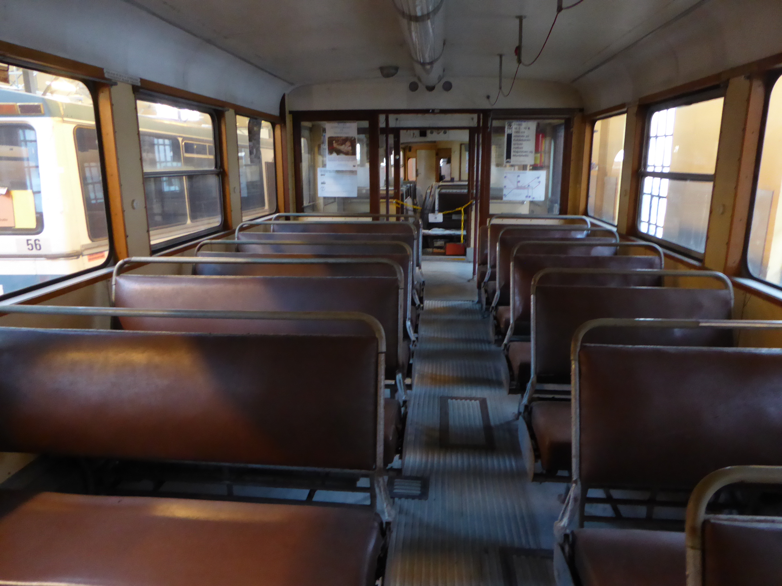 Tunnelbane car BB 405 of Bærumsbanen from 1954 at Sporveismuseet in Oslo.